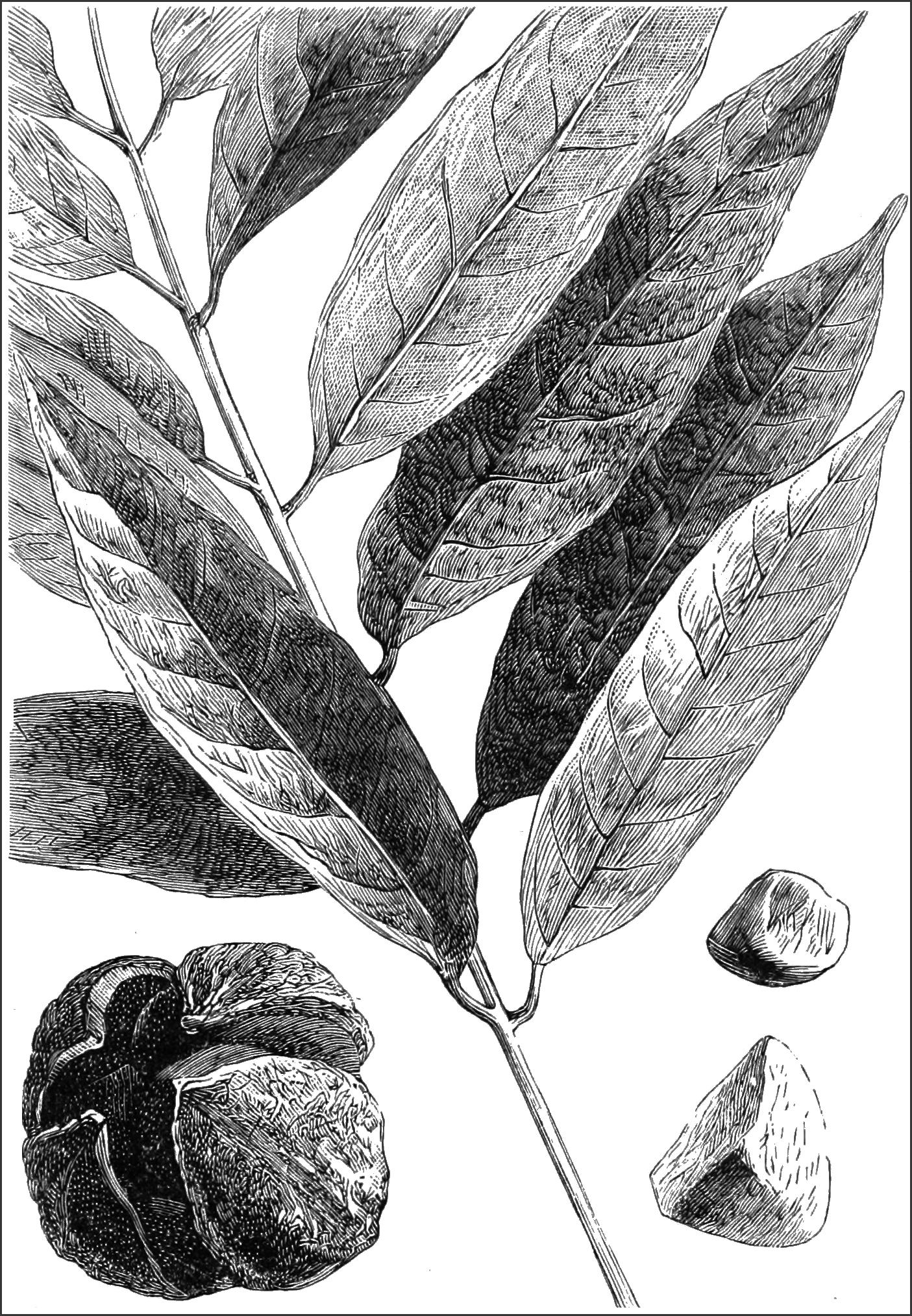 Carapa guianensis fruits and leaves